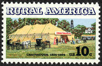 US stamp honoring the 100th anniversary of the Chautauqua movement